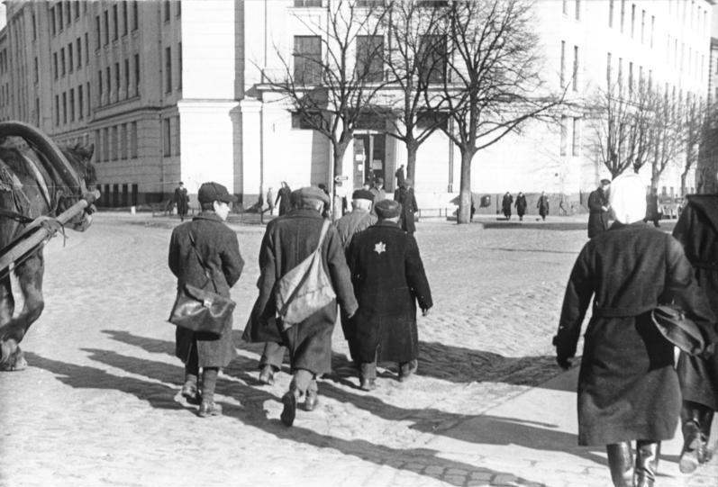 World War II 1939-1945. Persecution of Jews under the fascist German occupation troops in the Soviet Union. Riga, Latvia Soviet Socialist Republic: Jewish citizens may not use the sidewalks, but instead must walk in the roadway. Photographed in 1942.